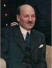 Clement Attlee. Cropped version of Image:Potsdam.jpg.